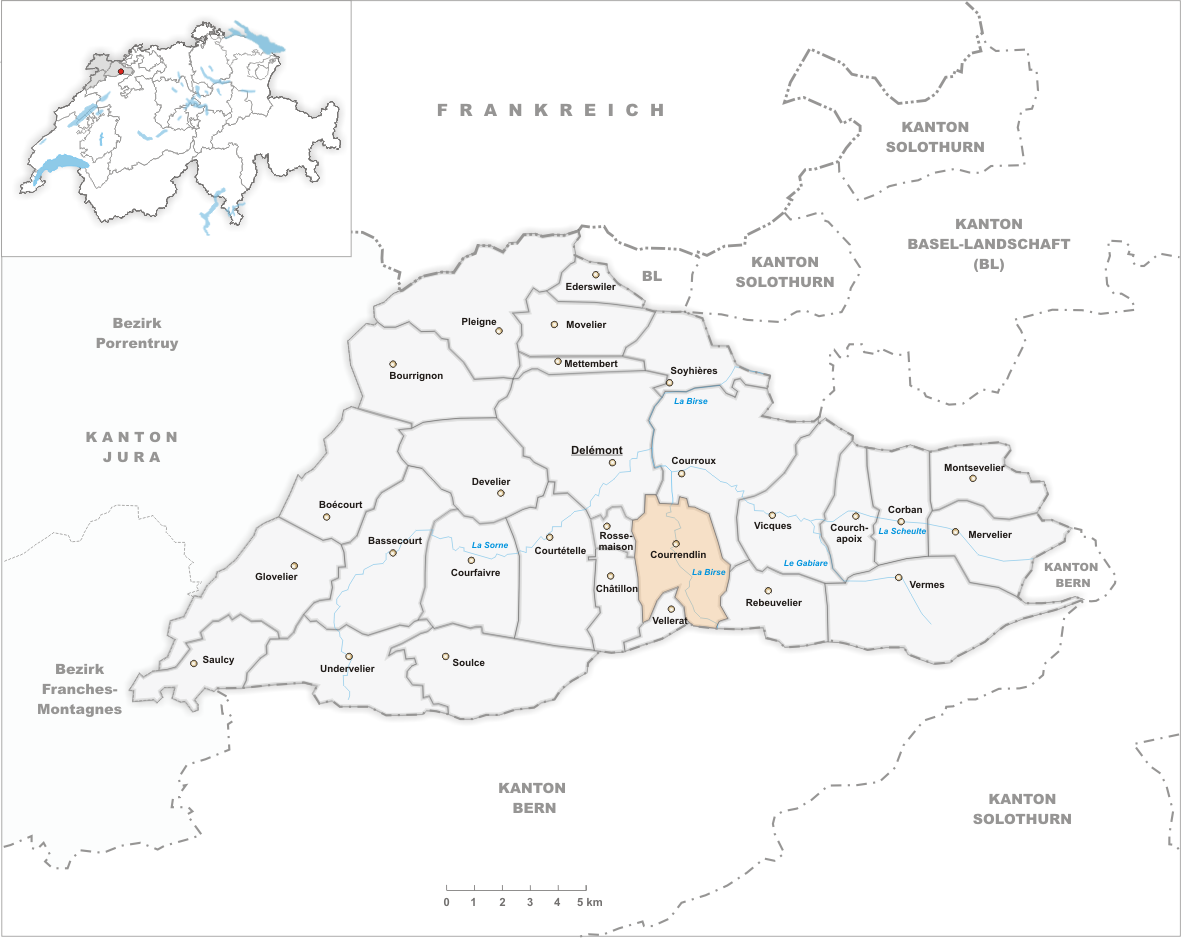 Municipality Courrendlin